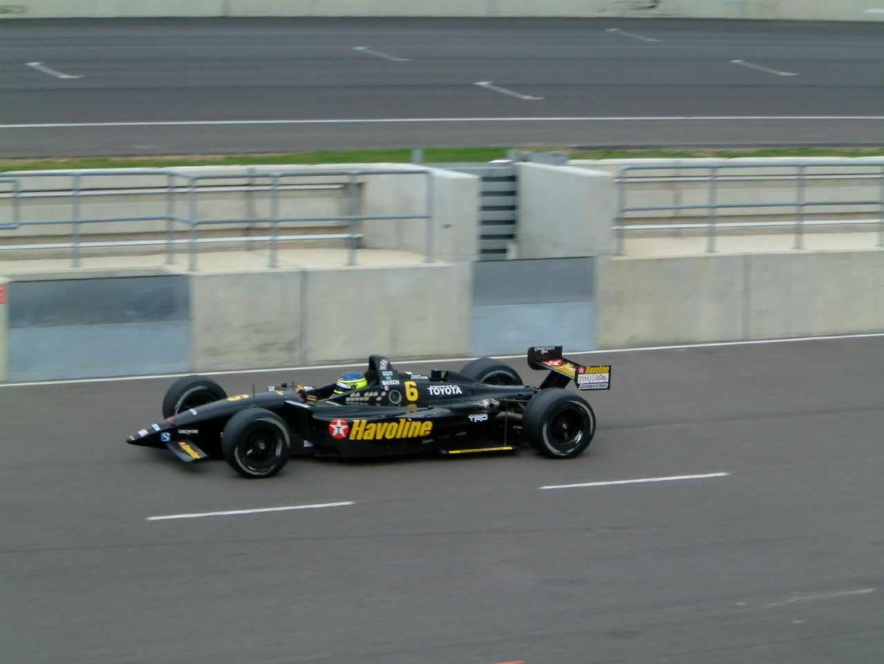 Cristiano da Matta driving for Newman/Haas Racing in the 2002 Sure For Men Rockingham 500